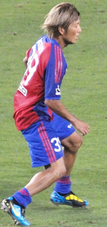 Masashi Oguro from FC Tokyo